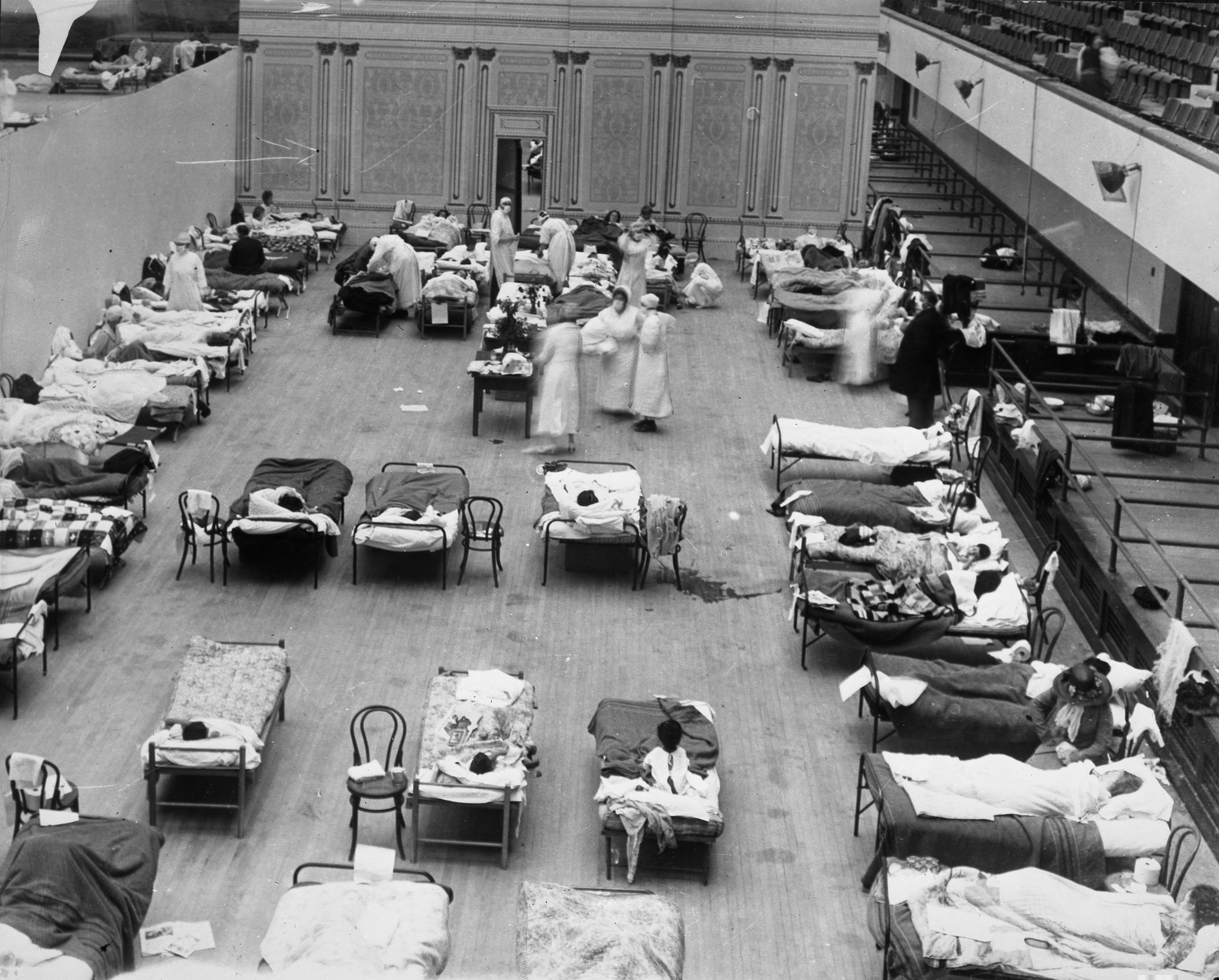 1918 flu epidemic: the Oakland Municipal Auditorium in use as a temporary hospital. The photograph depicts volunteer nurses from the American Red Cross tending influenza sufferers in the Oakland Auditorium, Oakland, California, during the influenza pandemic of 1918.